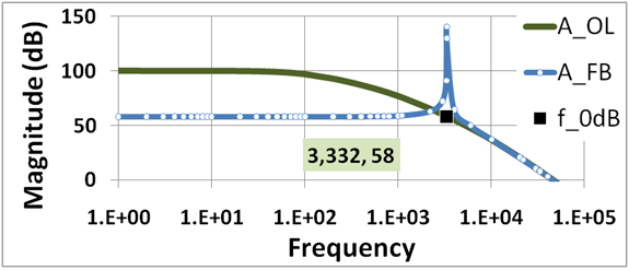 Bode plot of magnitude of gain for feedback amplifier